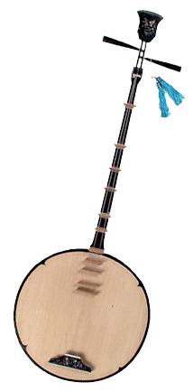 The đàn nguyệt (also called nguyệt cầm, đàn kìm, moon lute, or moon guitar) is a two-stringed Vietnamese traditional musical instrument. It is used in both folk and classical music.